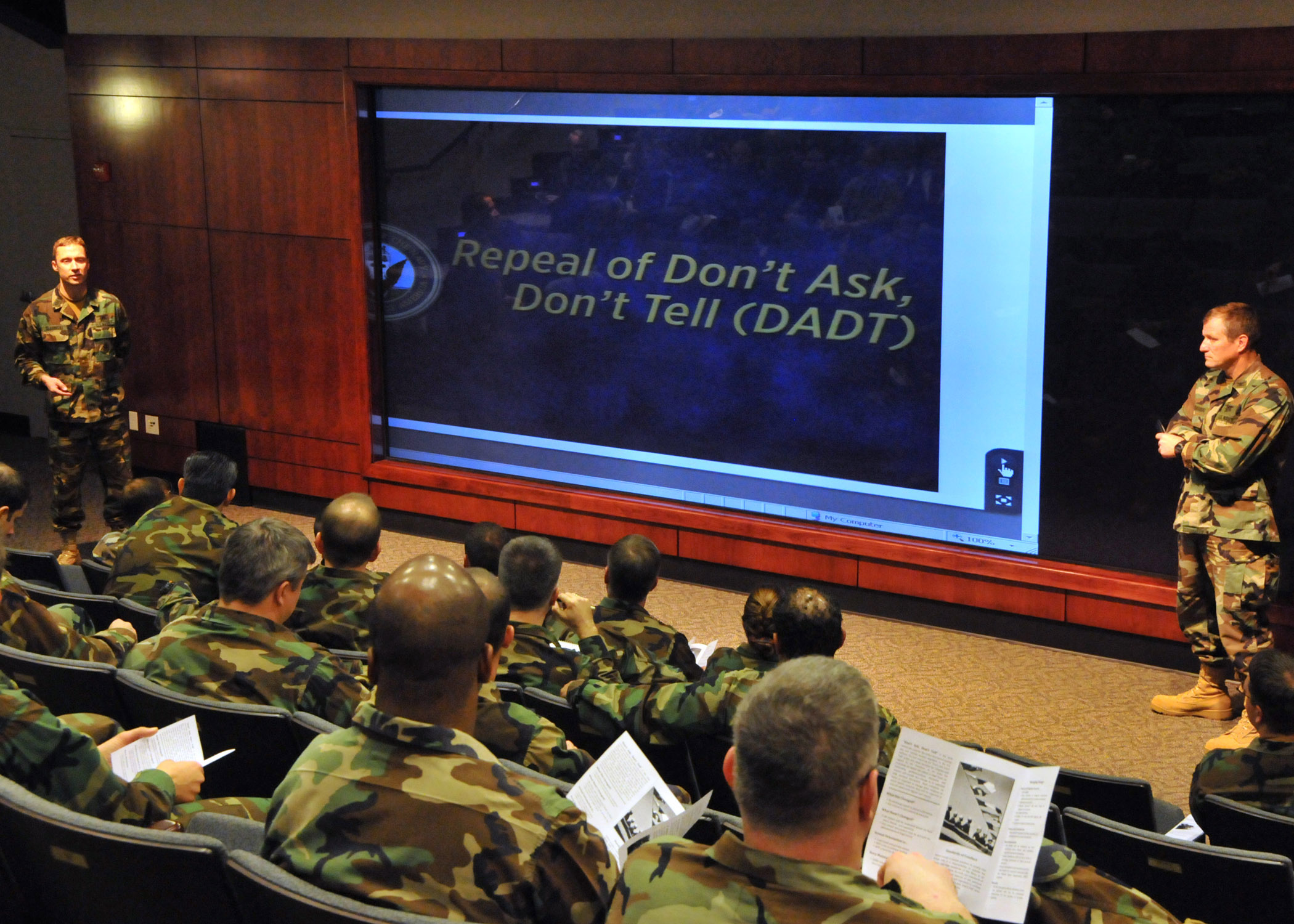 U.S. Navy Master Chief Britt K. Slabinski, left, command master chief, and Capt. Timothy G. Szymanski, commanding officer of Naval Special Warfare Group 2, kick off the “Don't Ask, Don't Tell” repeal all hands training at Joint Expeditionary Base Little Creek-Fort Story in Norfolk, Va., March 25, 2011.